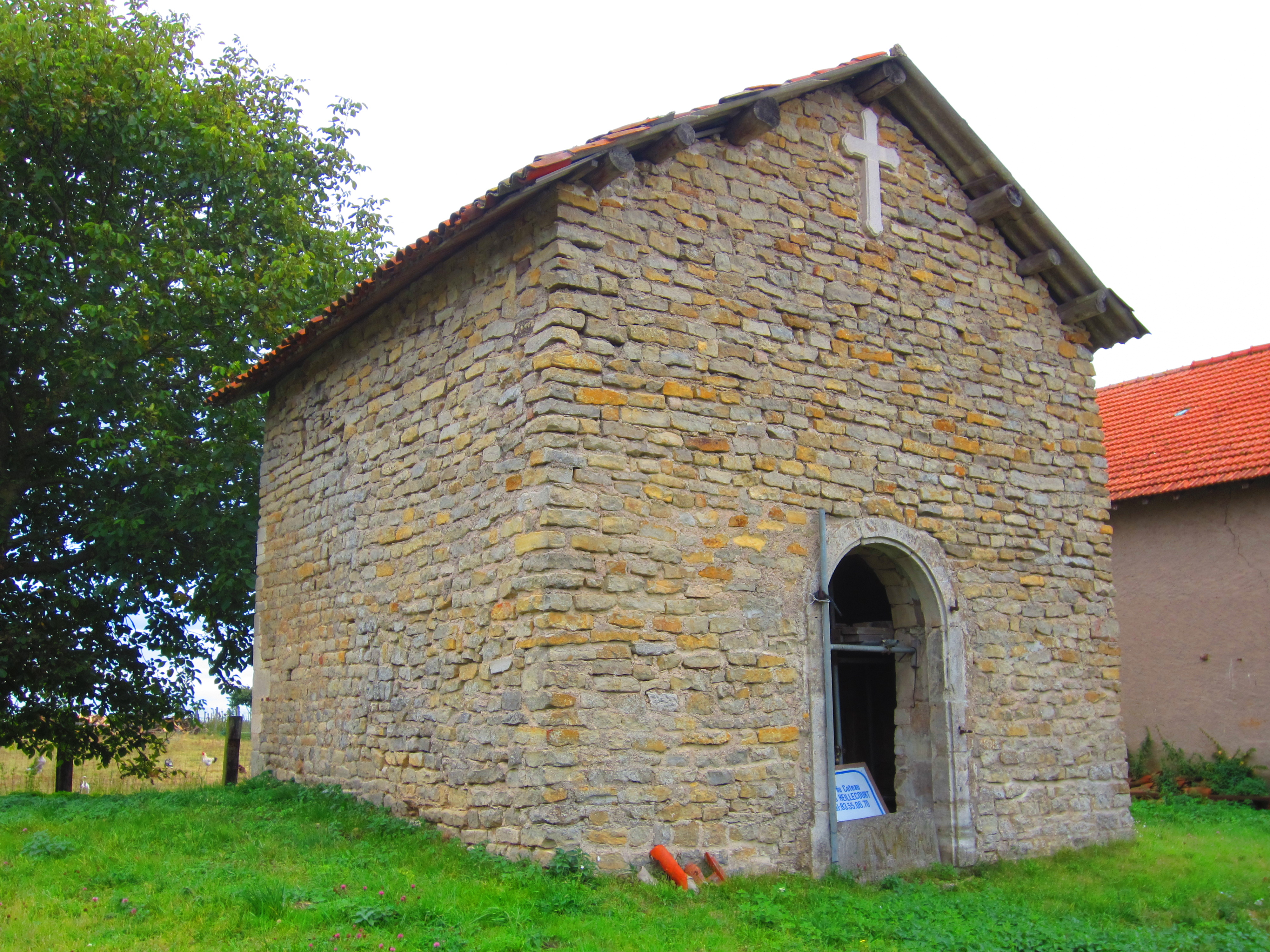 Thezey St Martin chapel